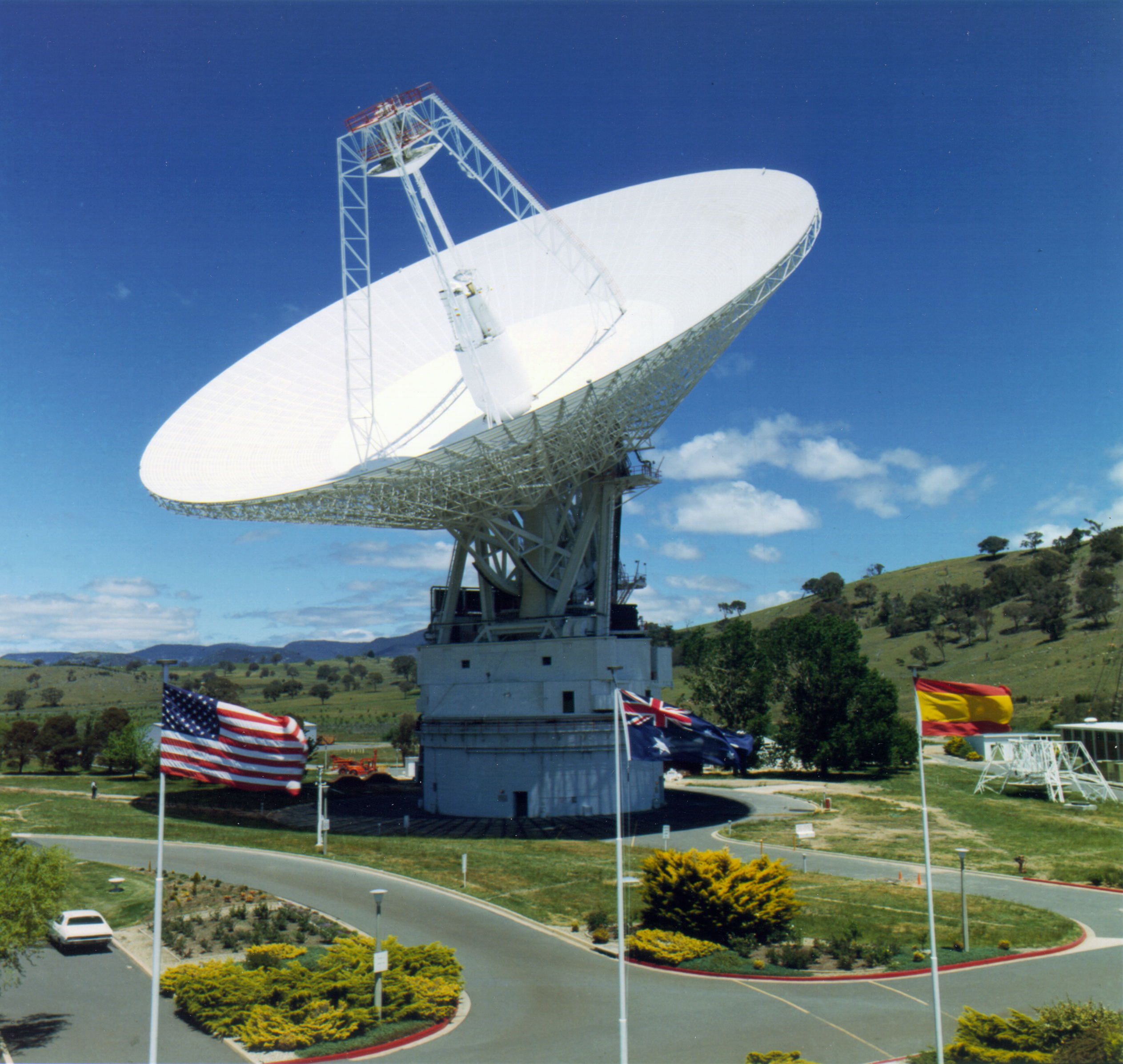 View of 70m (230 ft.) spacecraft communication antenna at the Canberra Deep Space Communication Complex, located outside Canberra, Australia. It is one of the three complexes which comprise NASA's Deep Space Network. The other complexes are located in Goldstone, California, and Madrid, Spain. This is a parabolic antenna with Cassegrain feed. It operates on X band (8 - 12 GHz) with extremely high gain of about 70 dBi. The incoming microwaves bounce off the large dish and are focused on the small white convex secondary reflector, which reflects them into the feed horn at the center of the dish. The receiver uses extremely low noise amplifiers such as cryogenically cooled masers or parametric amplifiers to detect the faint signals from spacecraft in the outer reaches of the Solar System. The three flags in foreground are those of the nations hosting the three Deep Space Network sites.